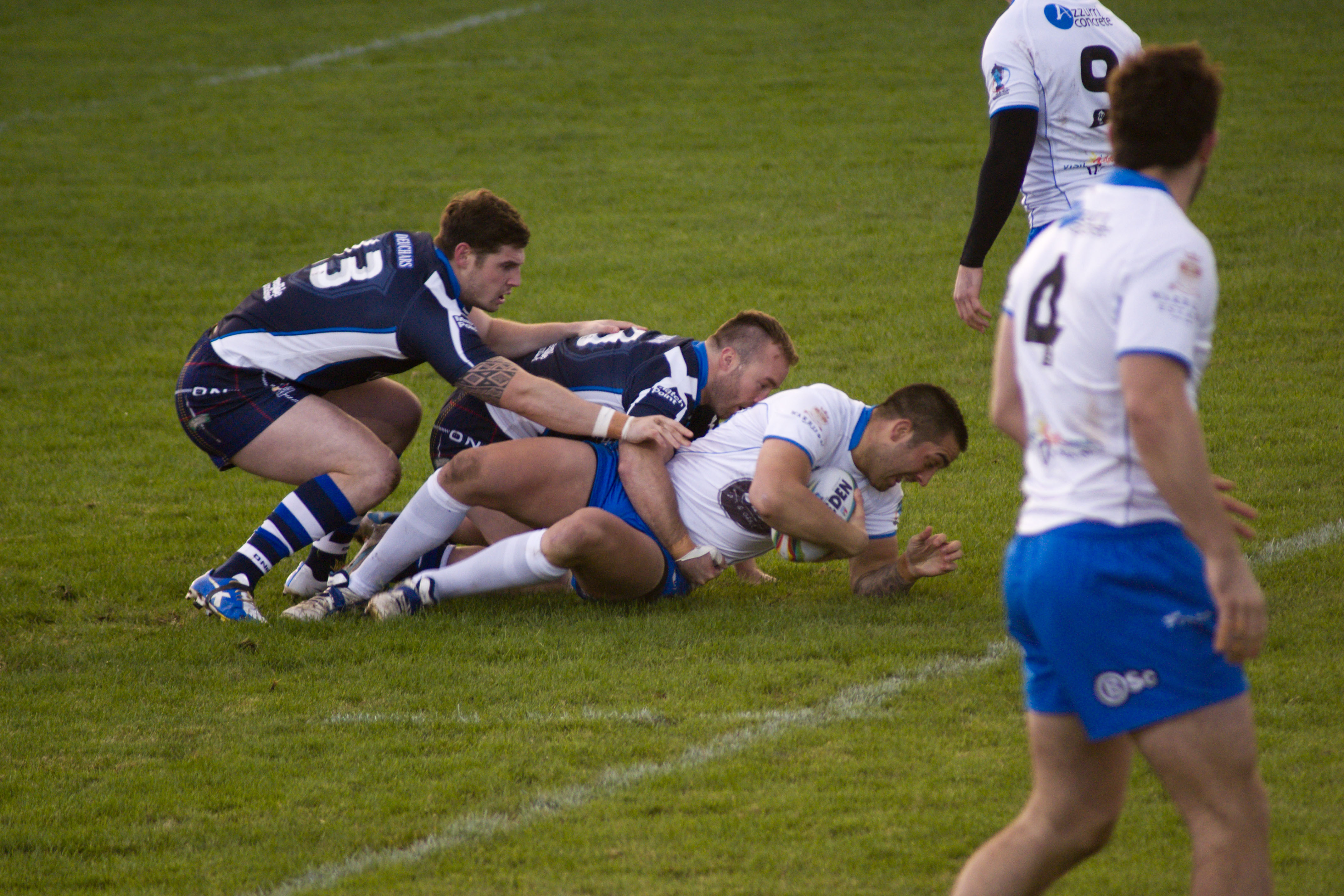 2013 Rugby League World Cup match between Scotland and Italy at Derwent Park in Workington.